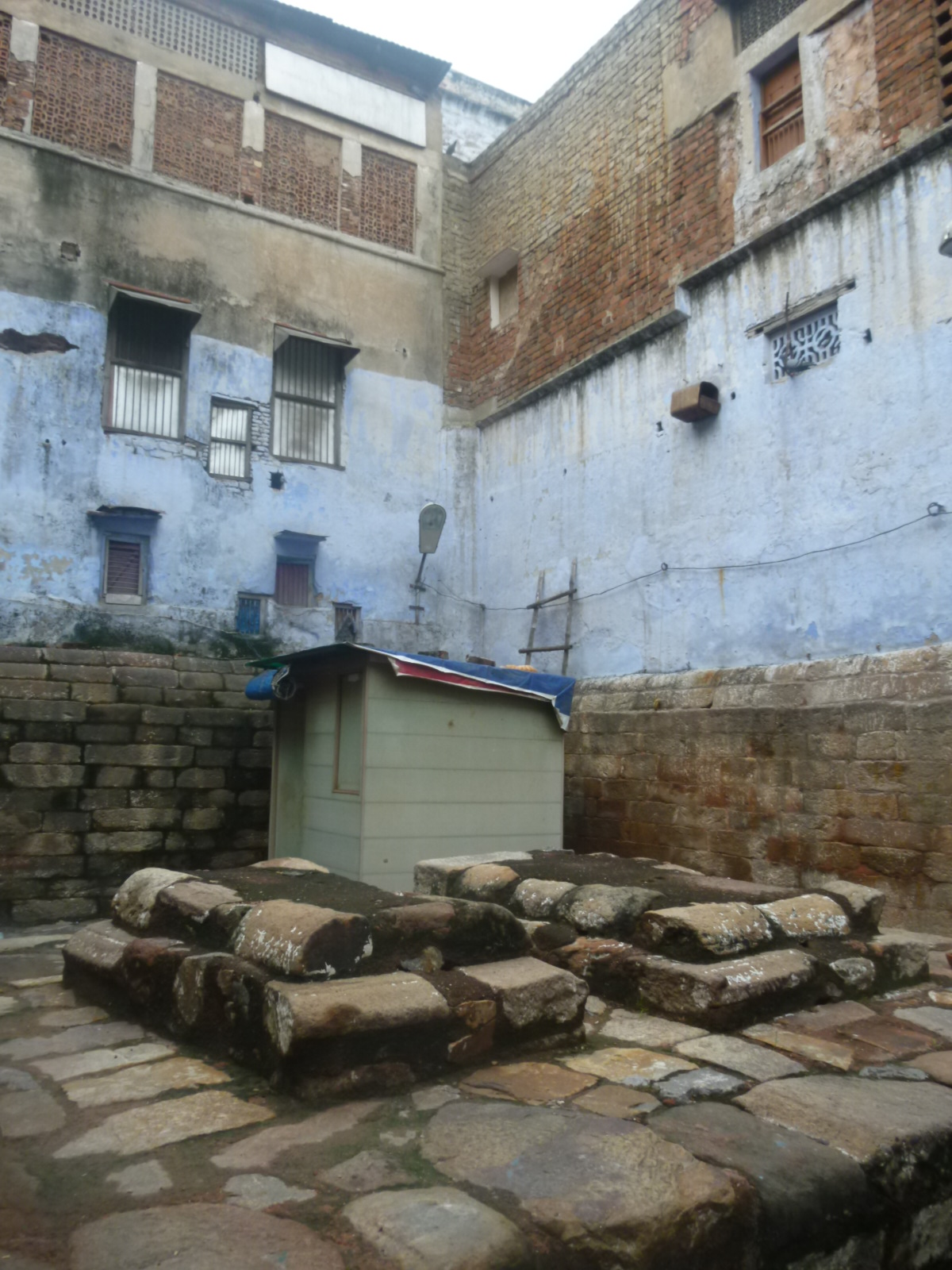 Tomb of Razia Begum (Razia Sultana) in Mohalla Bulbuli Khana